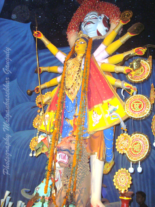 A photo of theme based durga puja